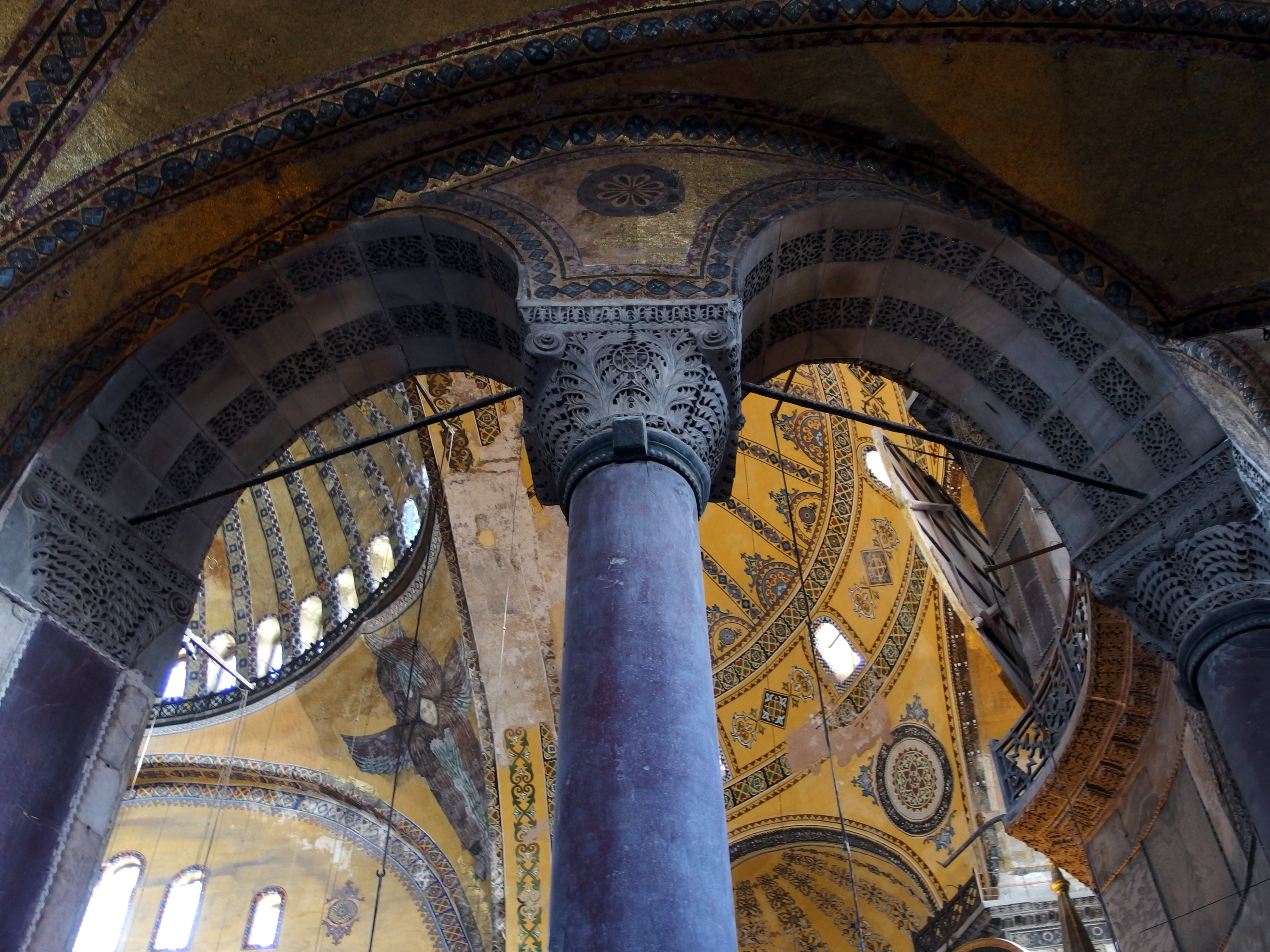 2013-12-03 in Istanbul.